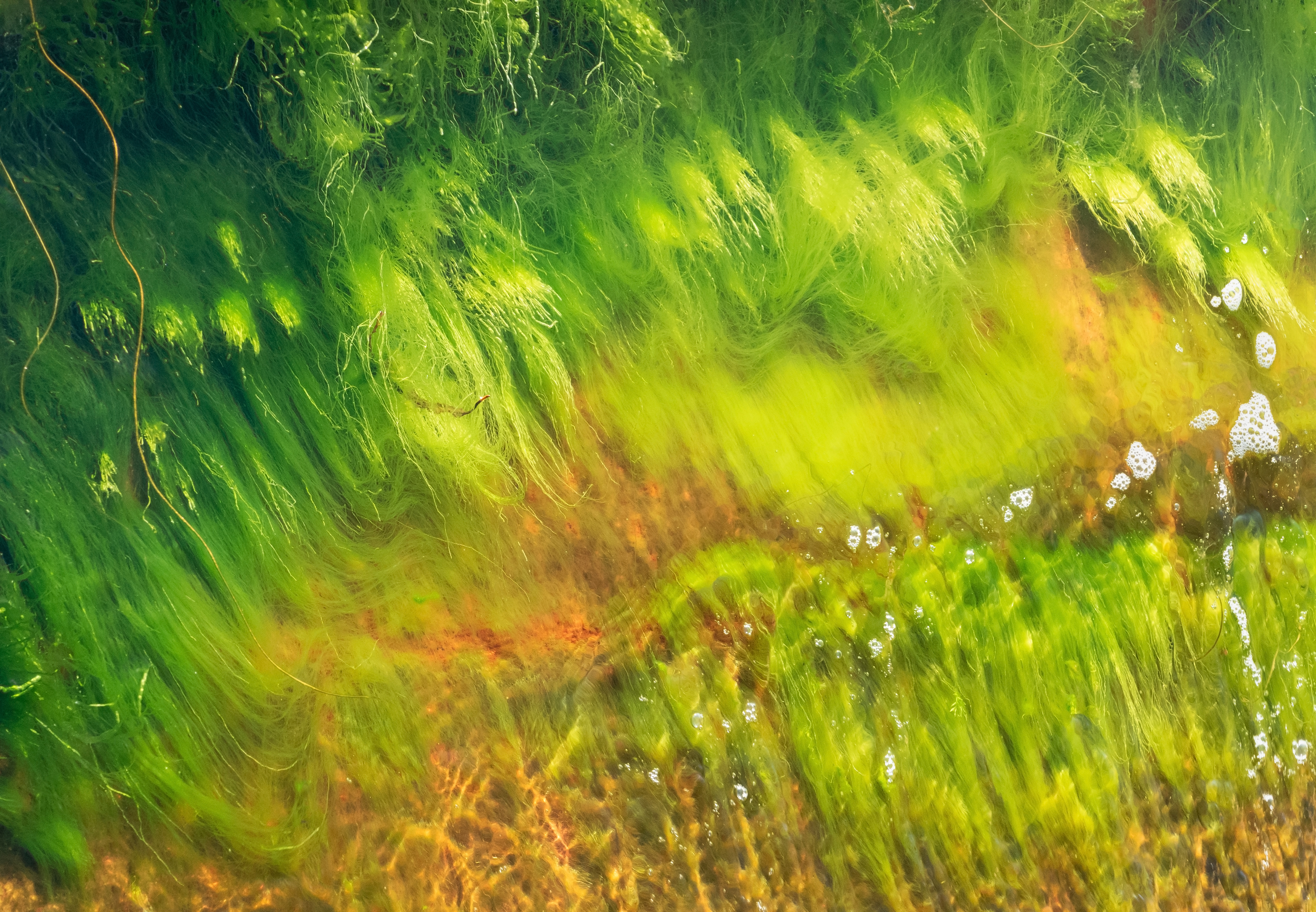 Blanket weed Cladophora glomerata moving in a wave. It grows on a rusty boat ramp in Govik, Lysekil Municipality, Sweden. In among the Cladophora glomerata are tufts of gutweed (Ulva intestinalis) and top left are a couple of dead man's rope (Chorda filum).